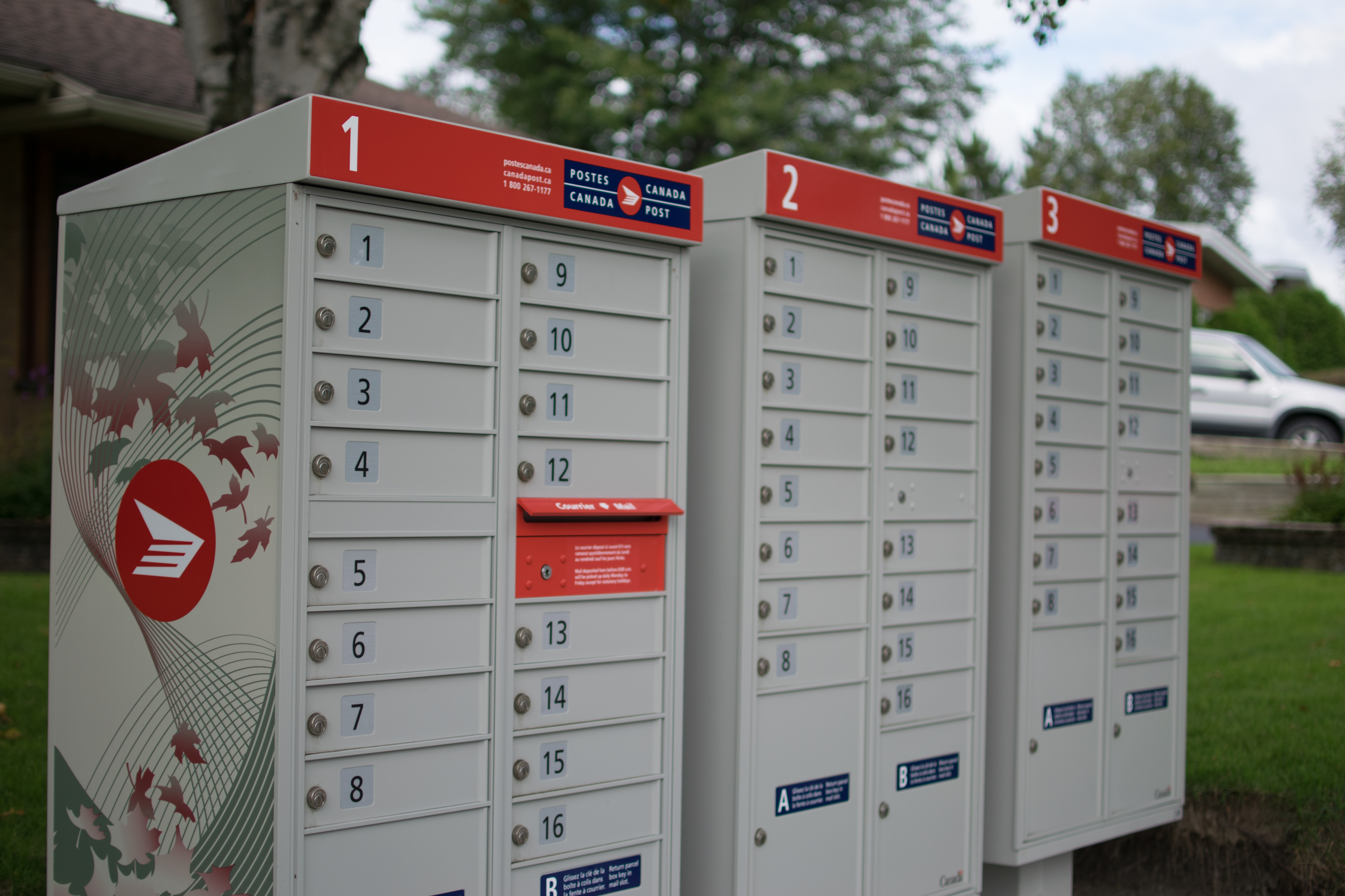 Community mailboxes in Chicoutimi, Quebec, Canada.